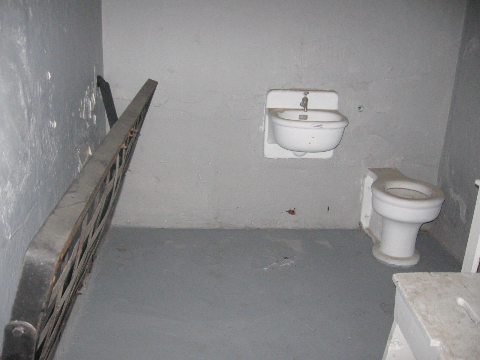 A view of the interior of a cell in Cellblock 1 of the Old Montana Prison